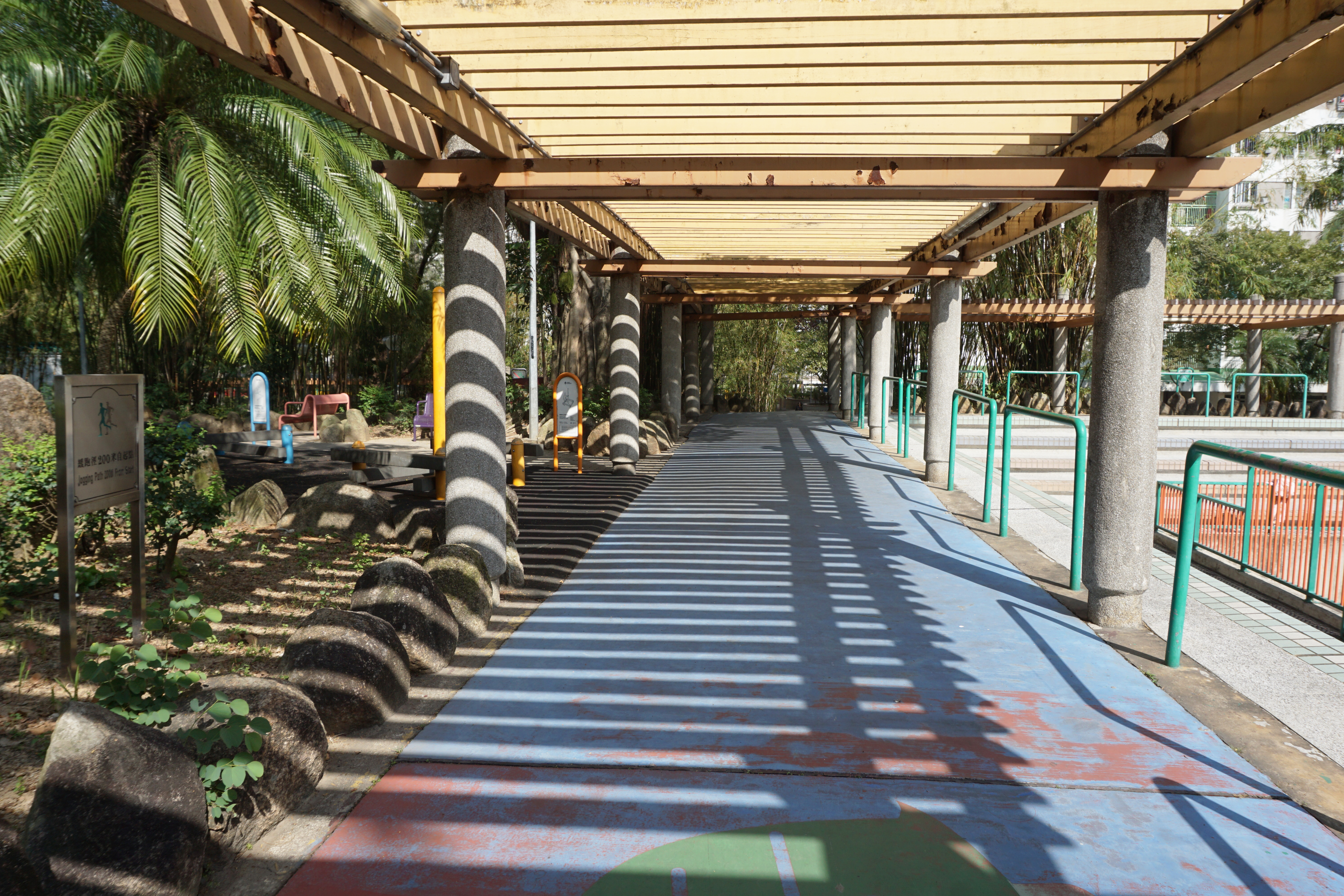 Butterfly Estate in Tuen Mun, Hong Kong.